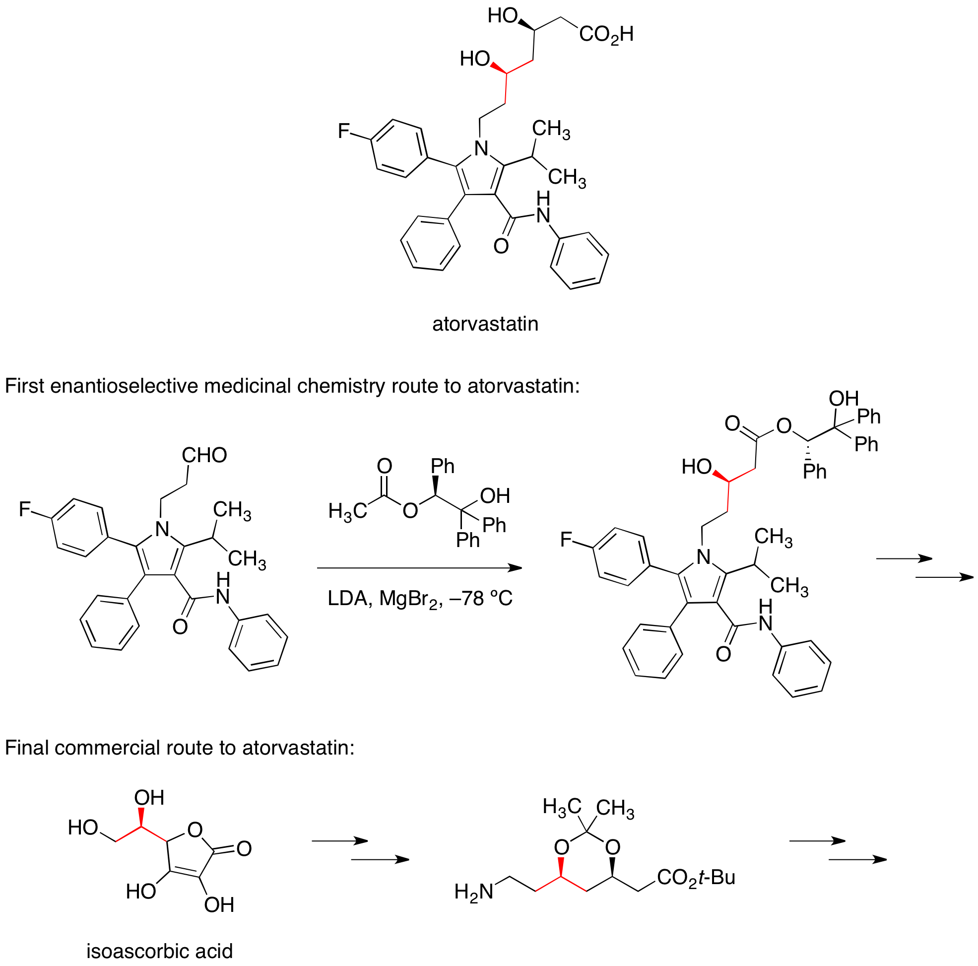 Chemdraw